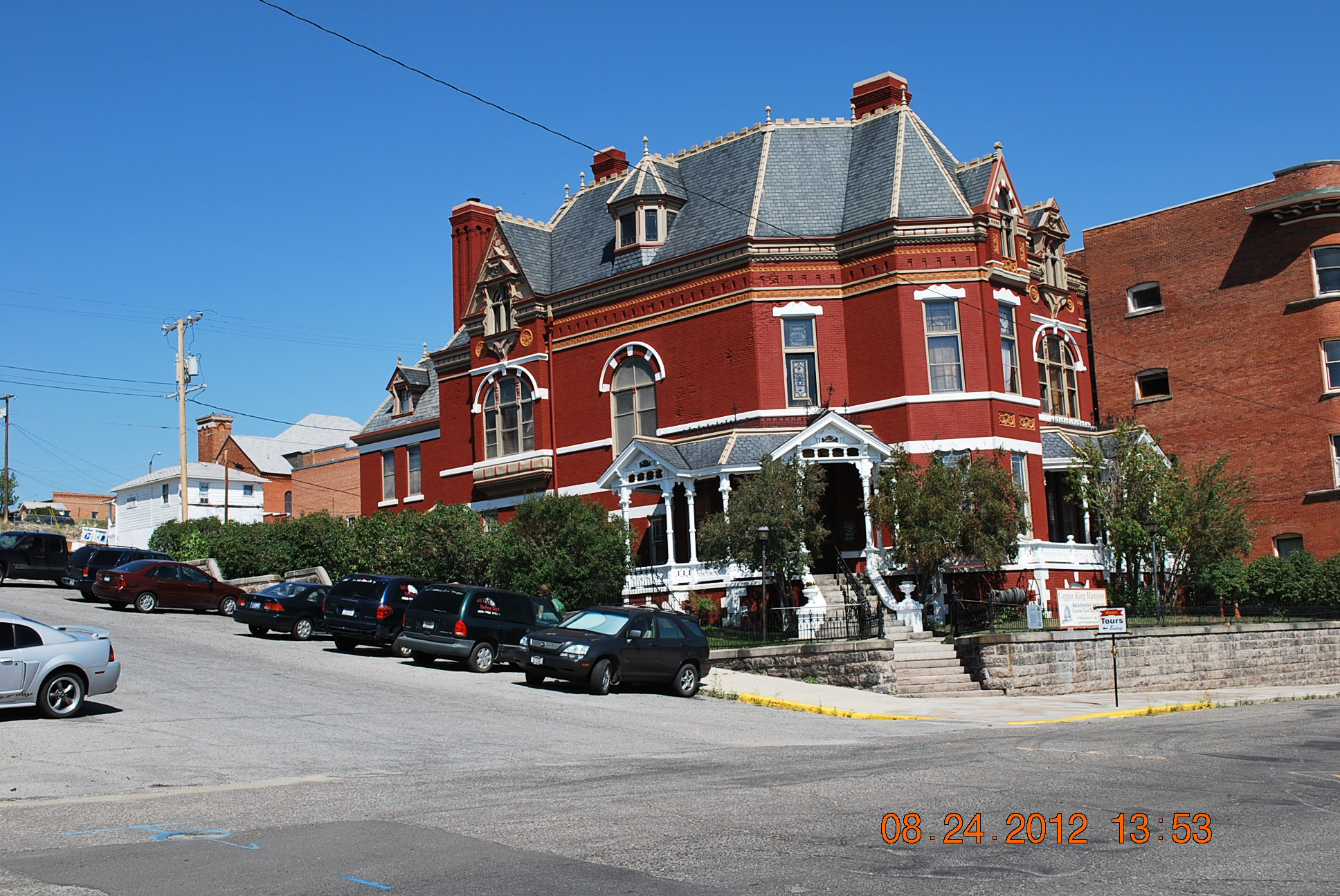 This appears to be the W.A. Clark Mansion, *not* the Charles W. Clark Mansion at 108 N. Washington St. Butte *not* 76001128